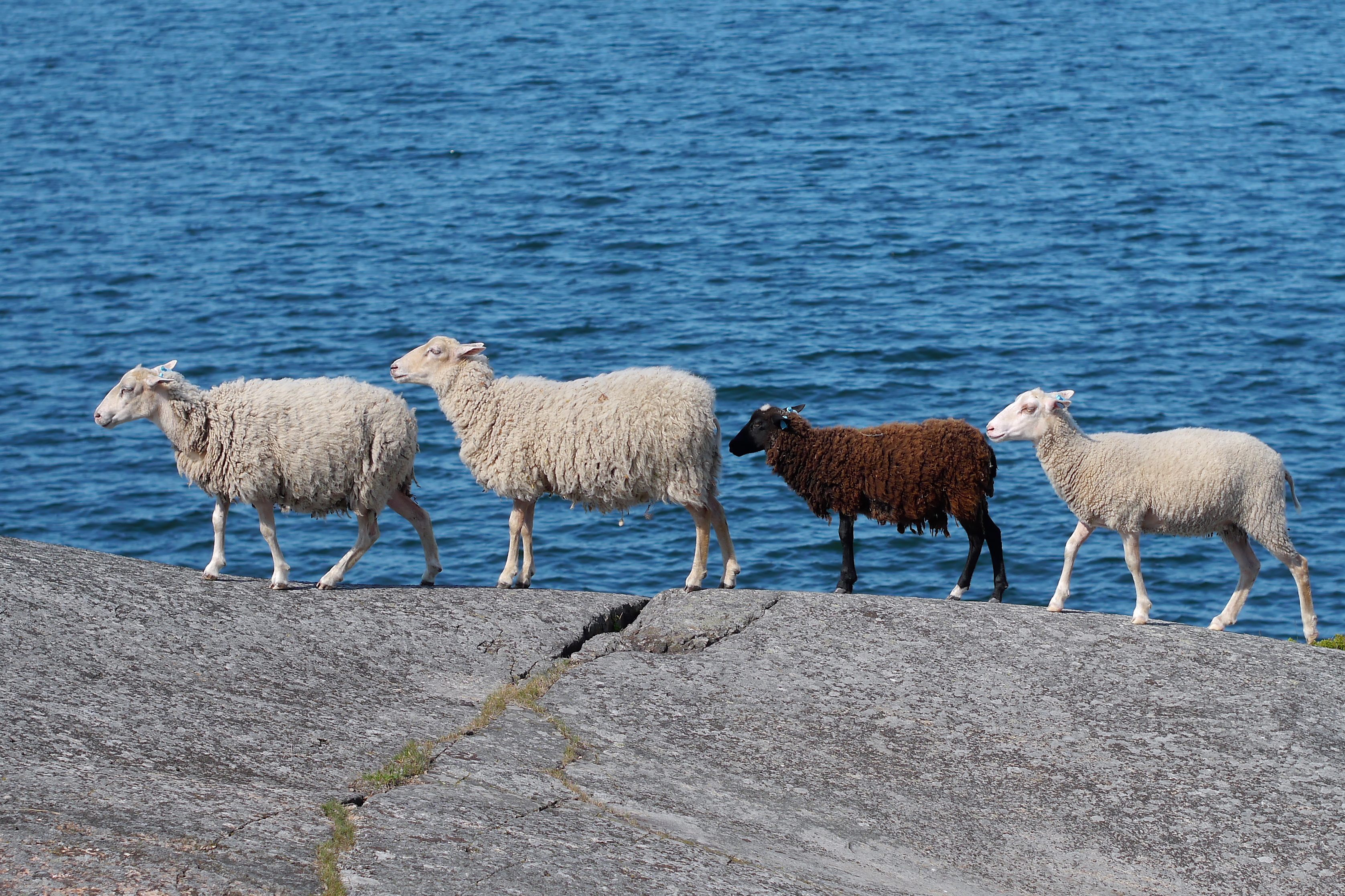 These sheep, owned by the government of Finland, keep the meadows from turning to thickets.